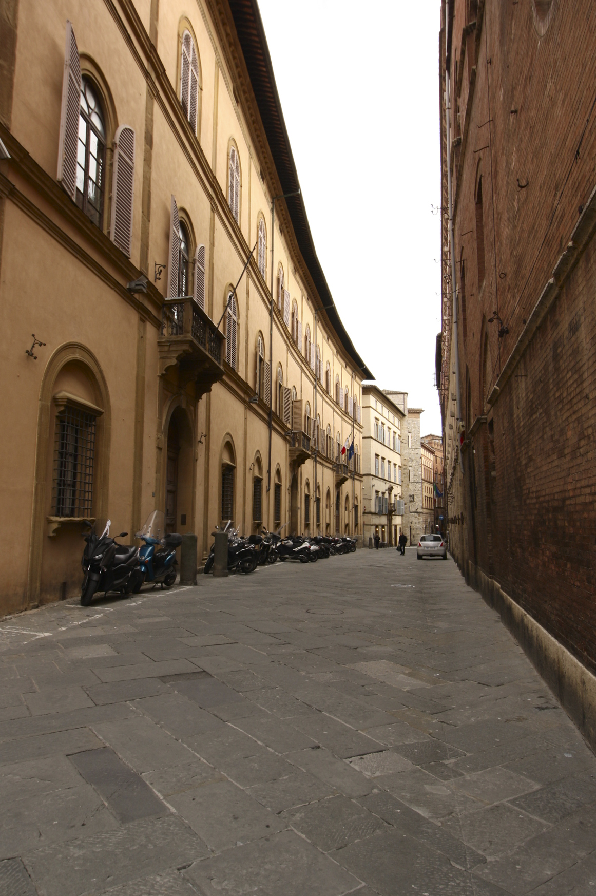 Via del Capitano, street in Siena, Tuscany, Italy